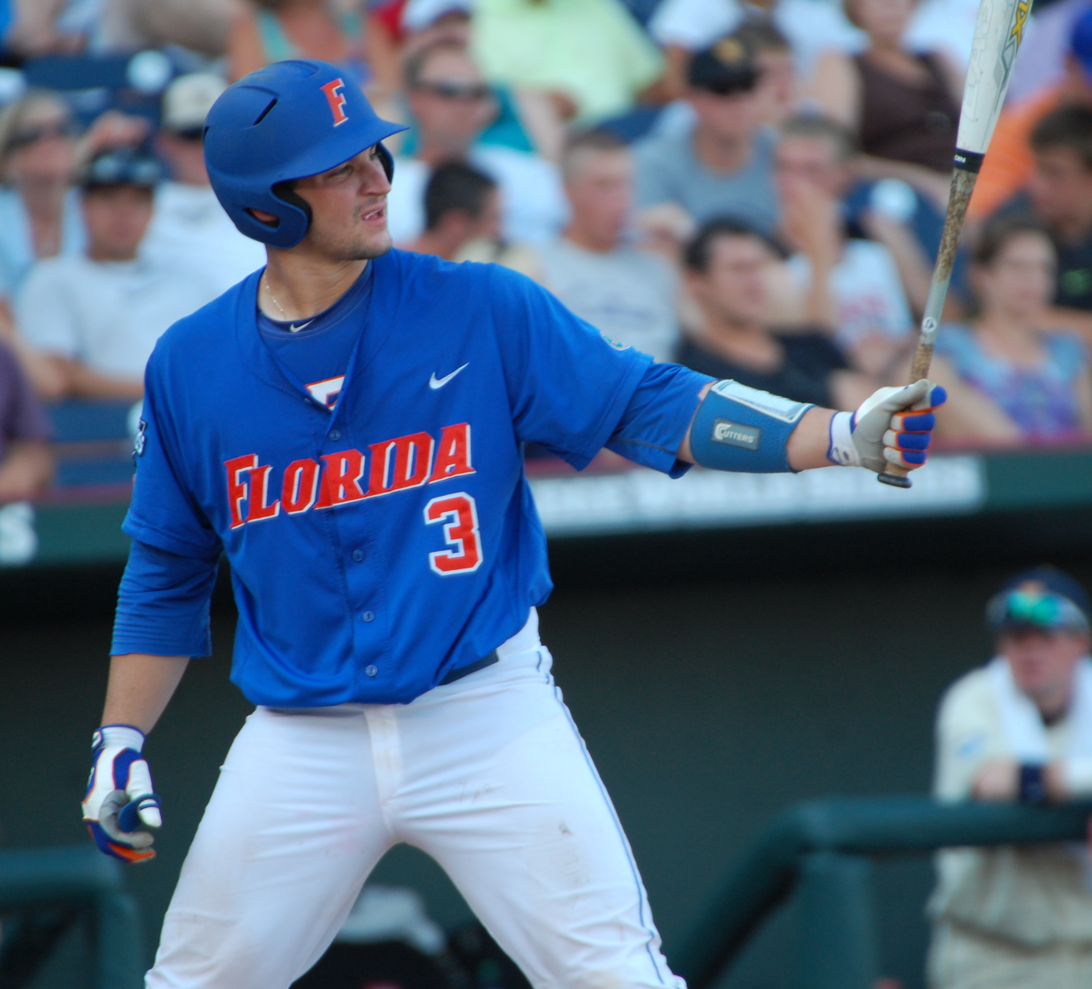 Mike Zunino of the Florida Gators bats in the 9th, with a runner on 1st and no out in the 2012 College World Series.